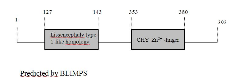 This illustration shows the two predicted domains for CAD28476. The upper numbers stand for the amino acids in the sequence